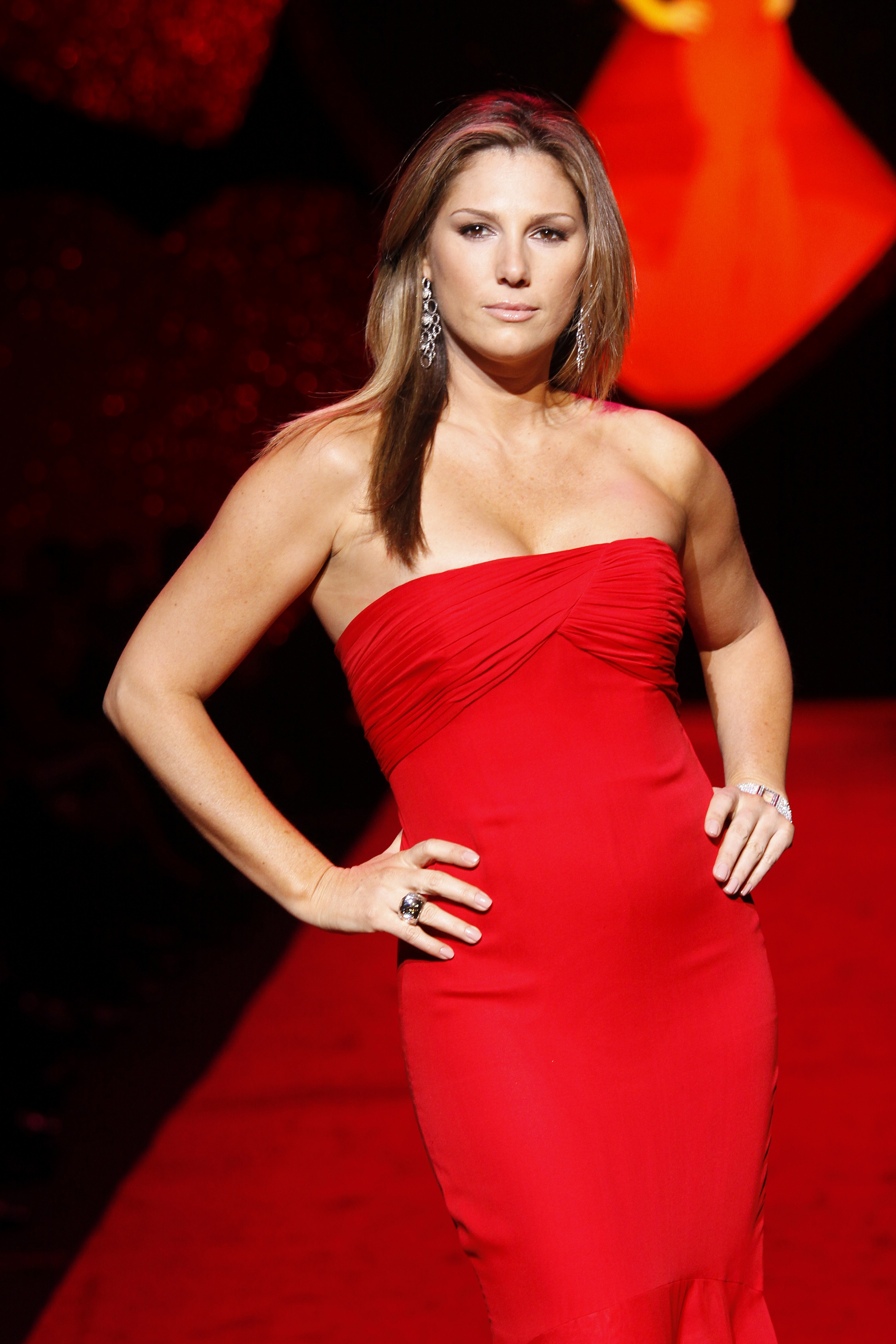 Daisy Fuentes on the runway at The Heart Truth's Red Dress Collection Fashion Show during New York Fashion Week. February 13, 2009 at Bryant Park.